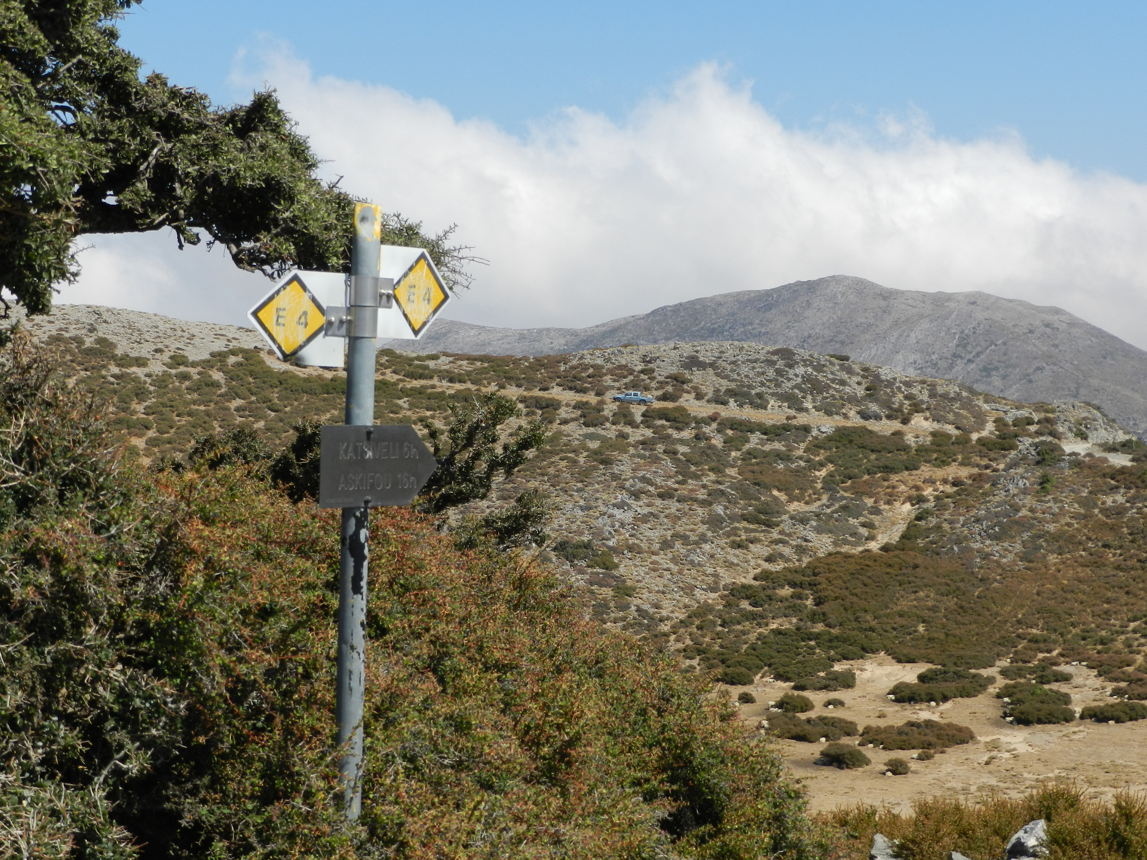 E4 near Kallergi (Lefka Ori)